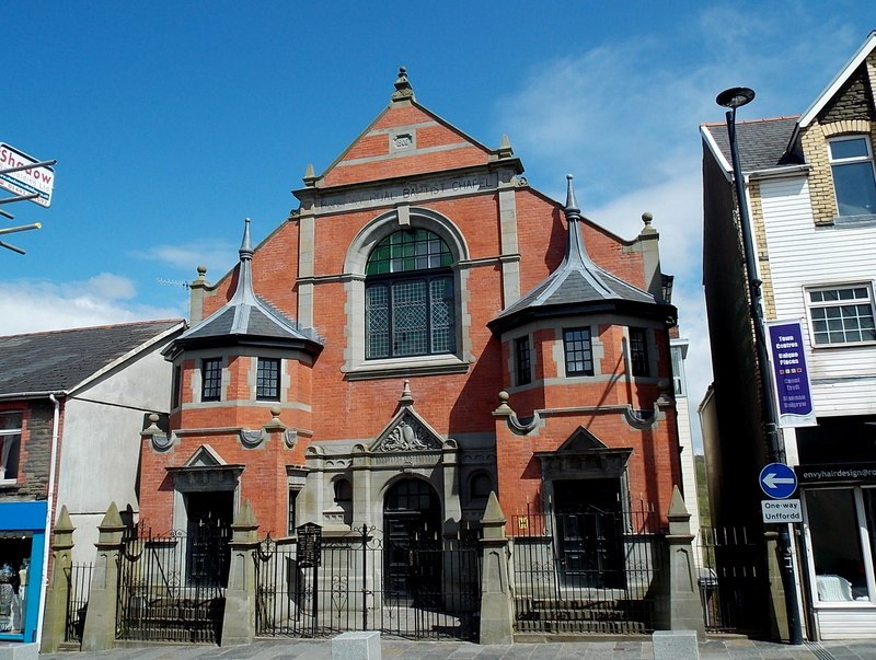 Hanbury Street Baptist chapel, Bargoed